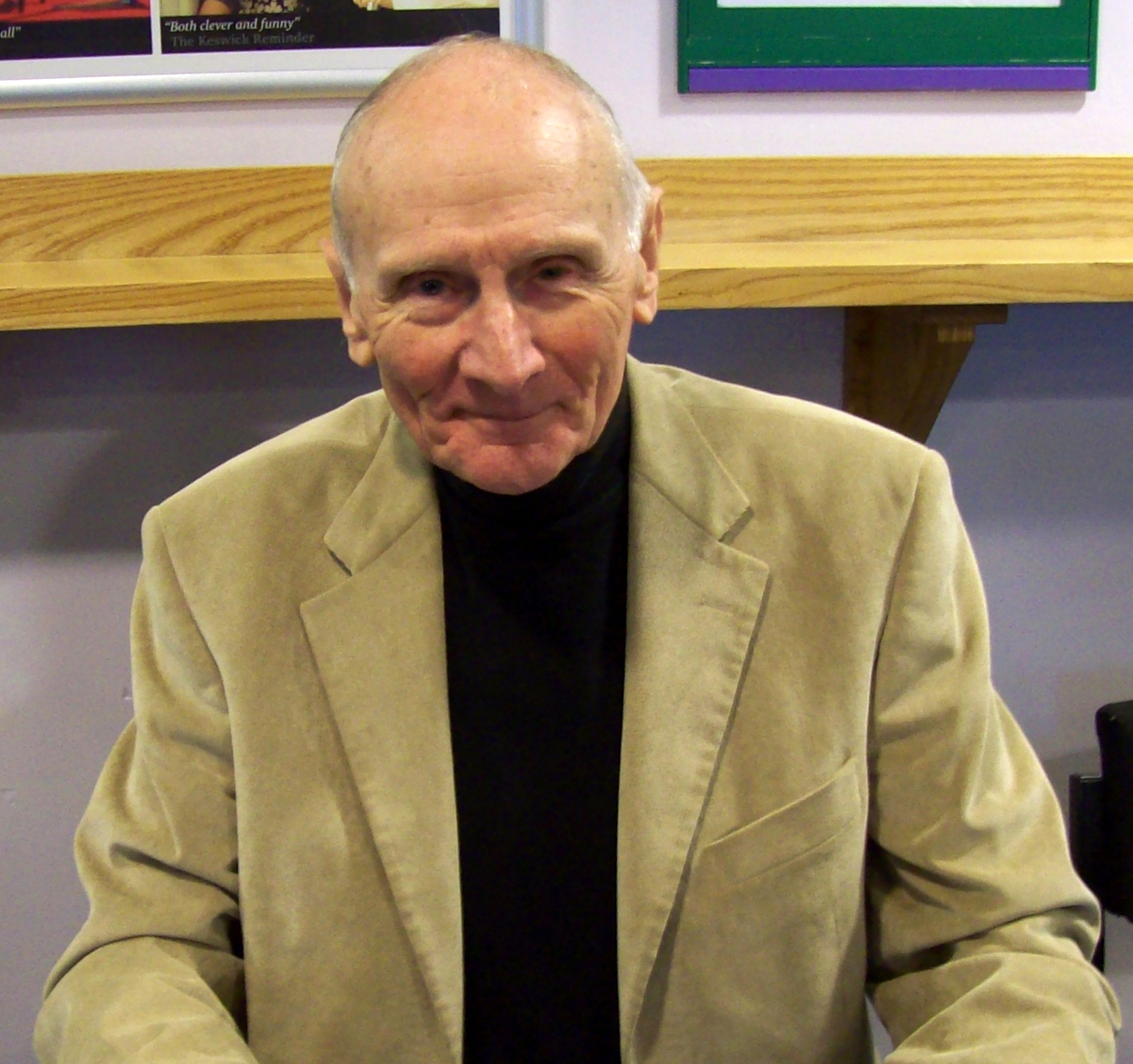 Professor John Carey, photographed on 14 March 2014 (cropped from the original photo taken by Freddie Phillips).